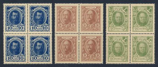 Stamp of Russia